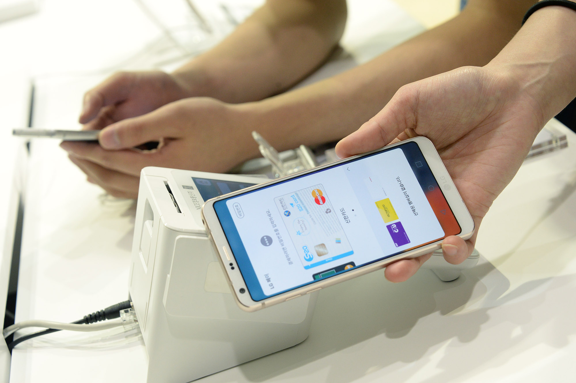 LG Pay payment screen with a local Mastercard, on the LG G6.